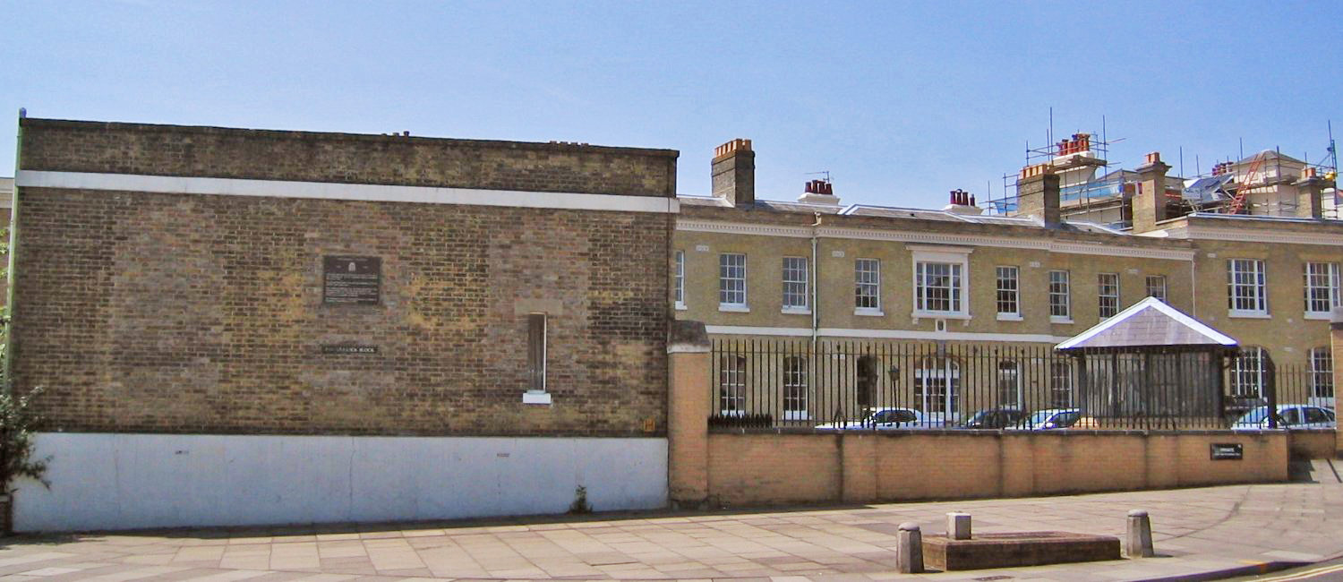 The old headquarters of the Ordnance Survey in Southampton, occupied from 1841 to 1969. Now used as part of the court complex. Photo taken by me 2005-06-07.